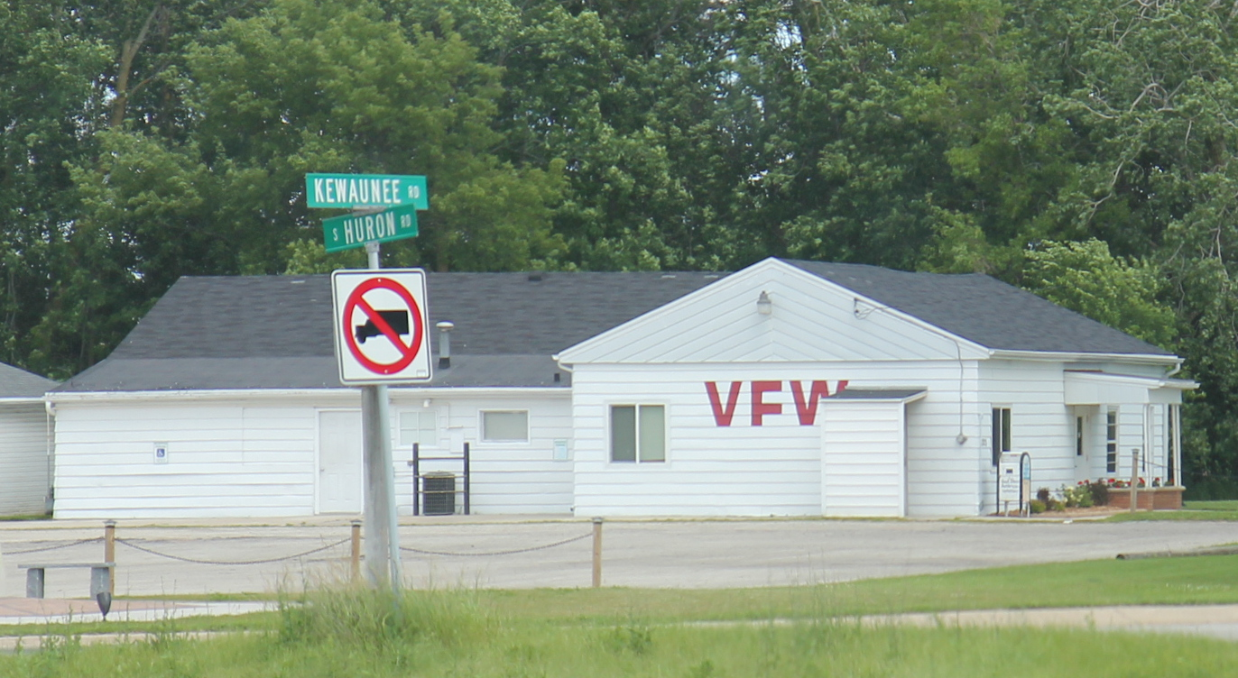 The VFW (Veteran's of Foreign Wars) post 9677 in Bellevue, Wisconsin.